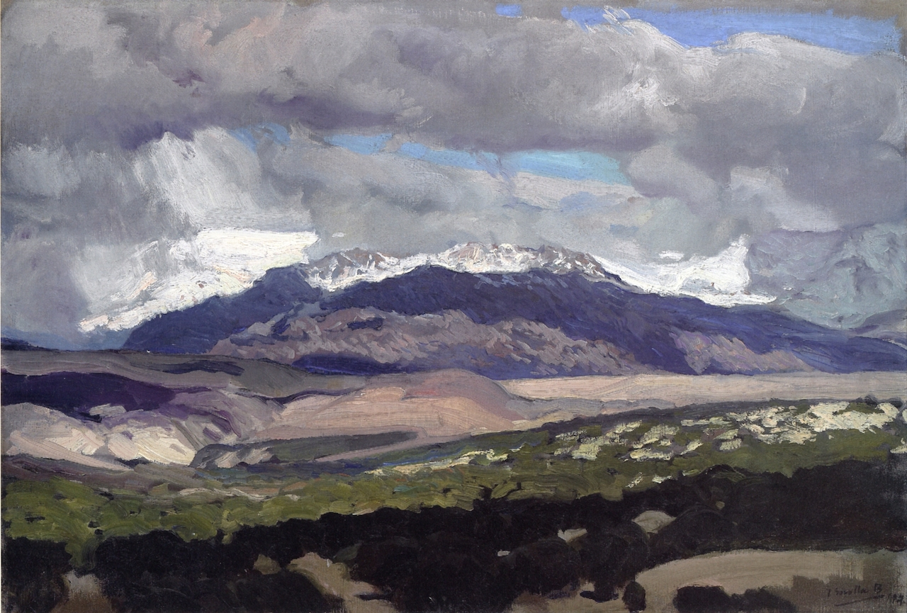 View of Las Pedrizas from El Pardo.